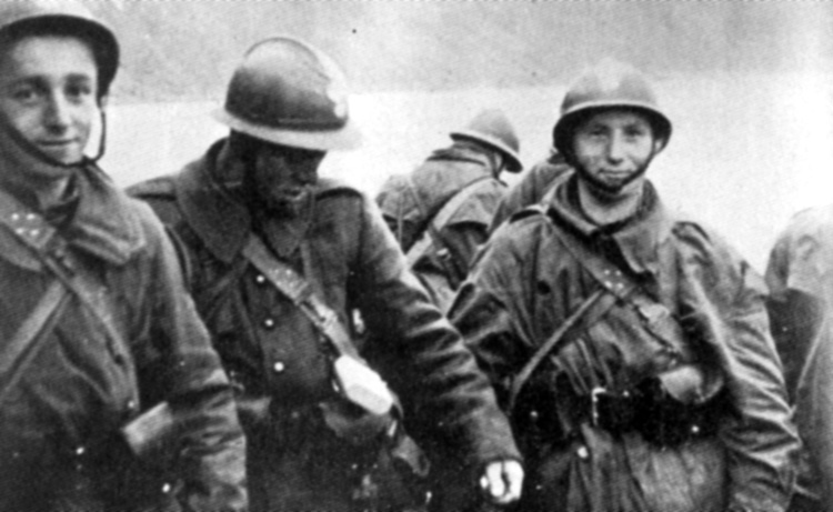 Soldiers of the Polish Independent Highlander Brigade during the Battle of Narvik